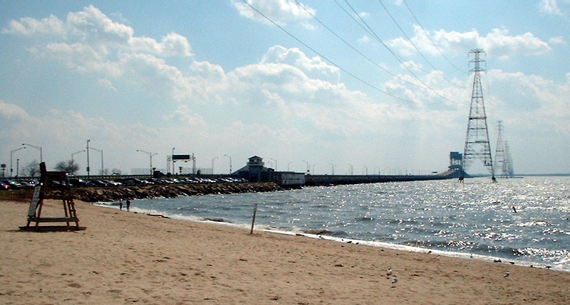 The James River Bridge. View is from Huntington Park Beach, April 1st, 2006